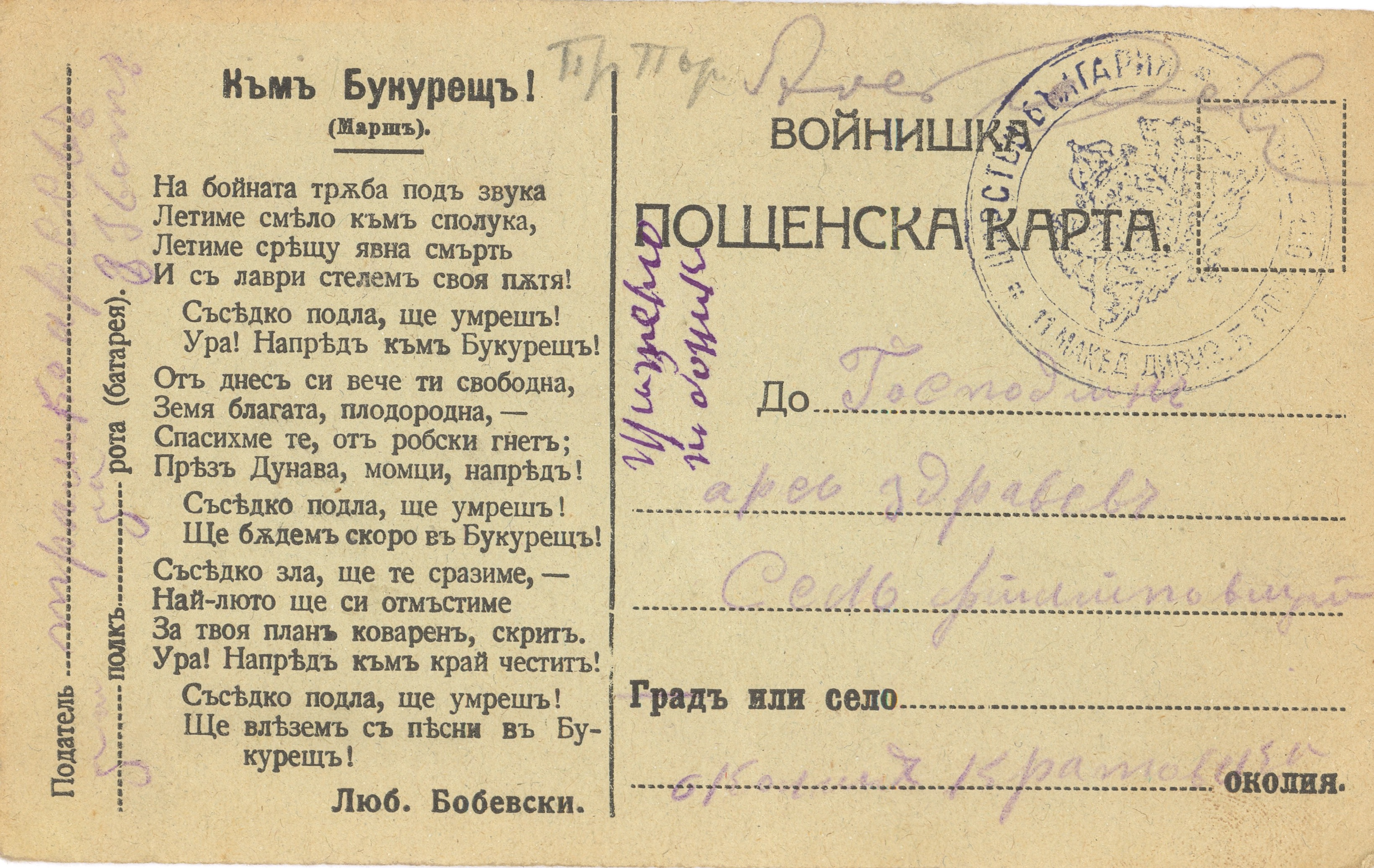 Postcard for soldiers recruited from the Bulgarian army. This media file is produced by Wikipedian in Residence in Category:Wikipedian in Residence at DARM in 2016.